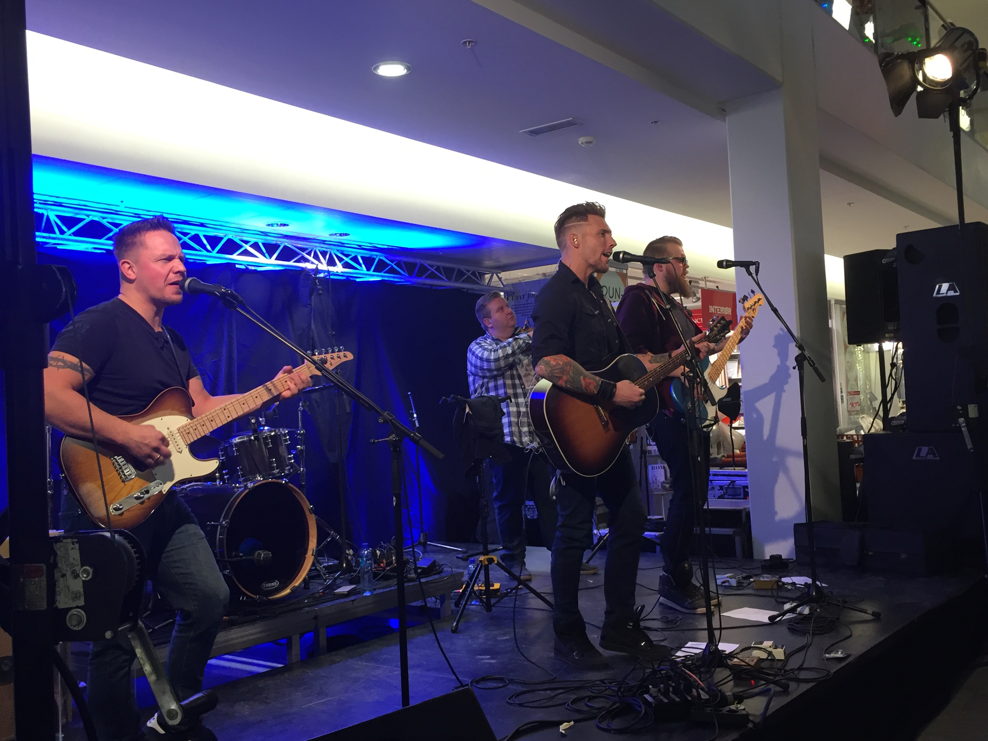 Norwegian country / folk rock band Byting, performing in the shopping center in Hønefoss, Norway.